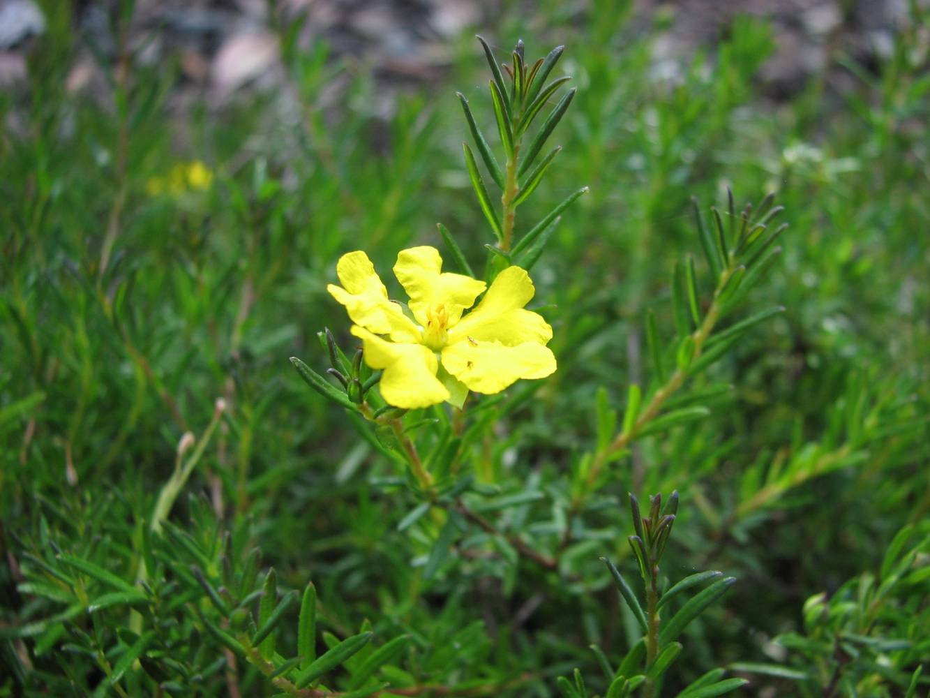 Hibbertia pedunculata (cultivated, labelled) Maranoa Gardens, Balwyn, Victoria, Australia